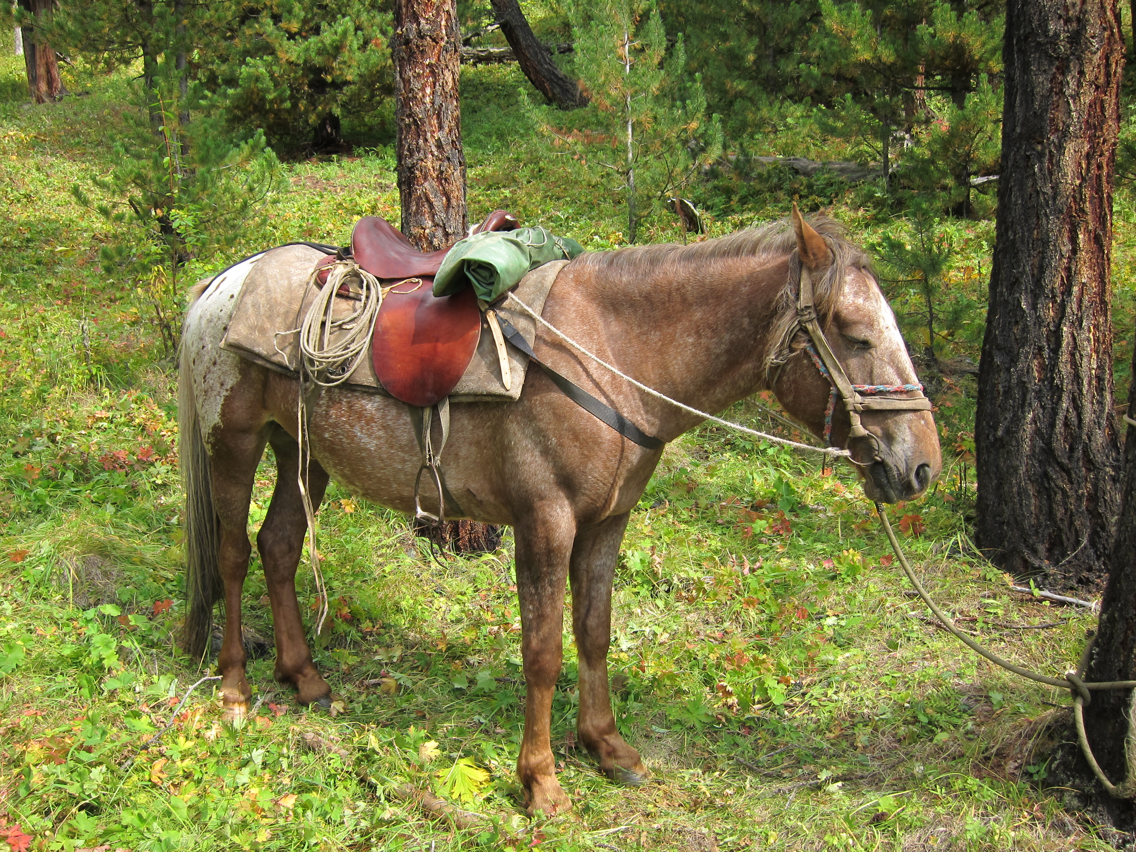 Altai Republic, Kosh-Agachsky District stay:под перевалом